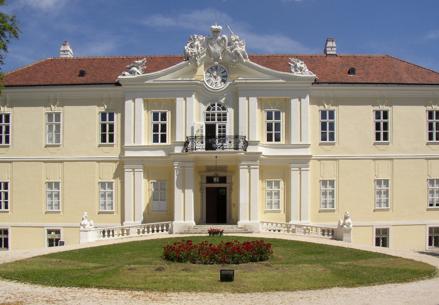 Wilfersdorf Palace (Lower Austria)